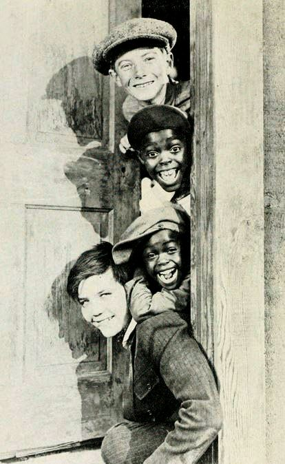 Still from the American film Penrod (1922) with Wesley Barry, Ernie "Sunshine Sammy" Morrison, Florence Morrison, and Gordon Griffith, on page 182 of William Lord Wright, Photoplay Writing (1922).